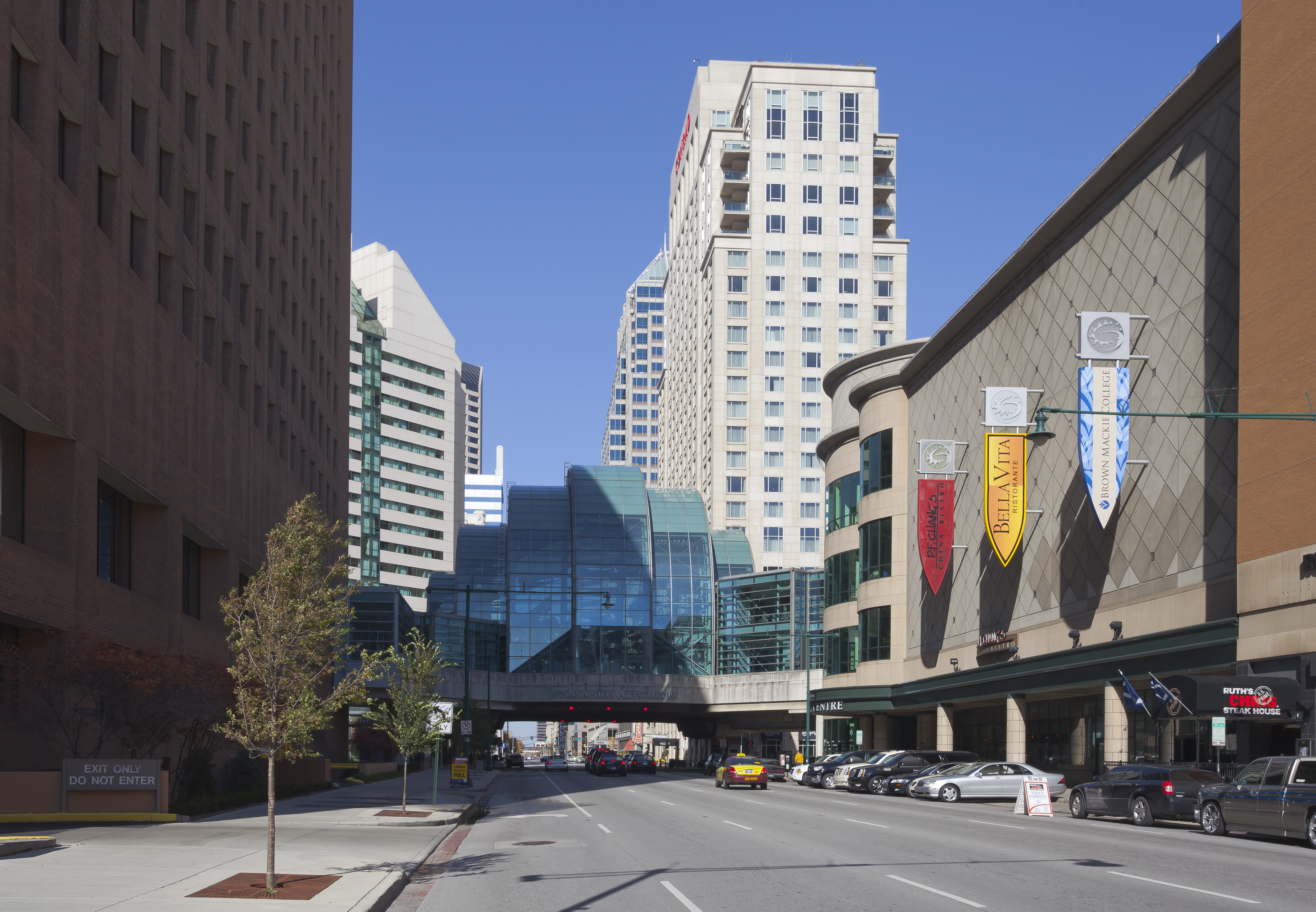 Indianapolis Artsgarden, Indianapolis, USA